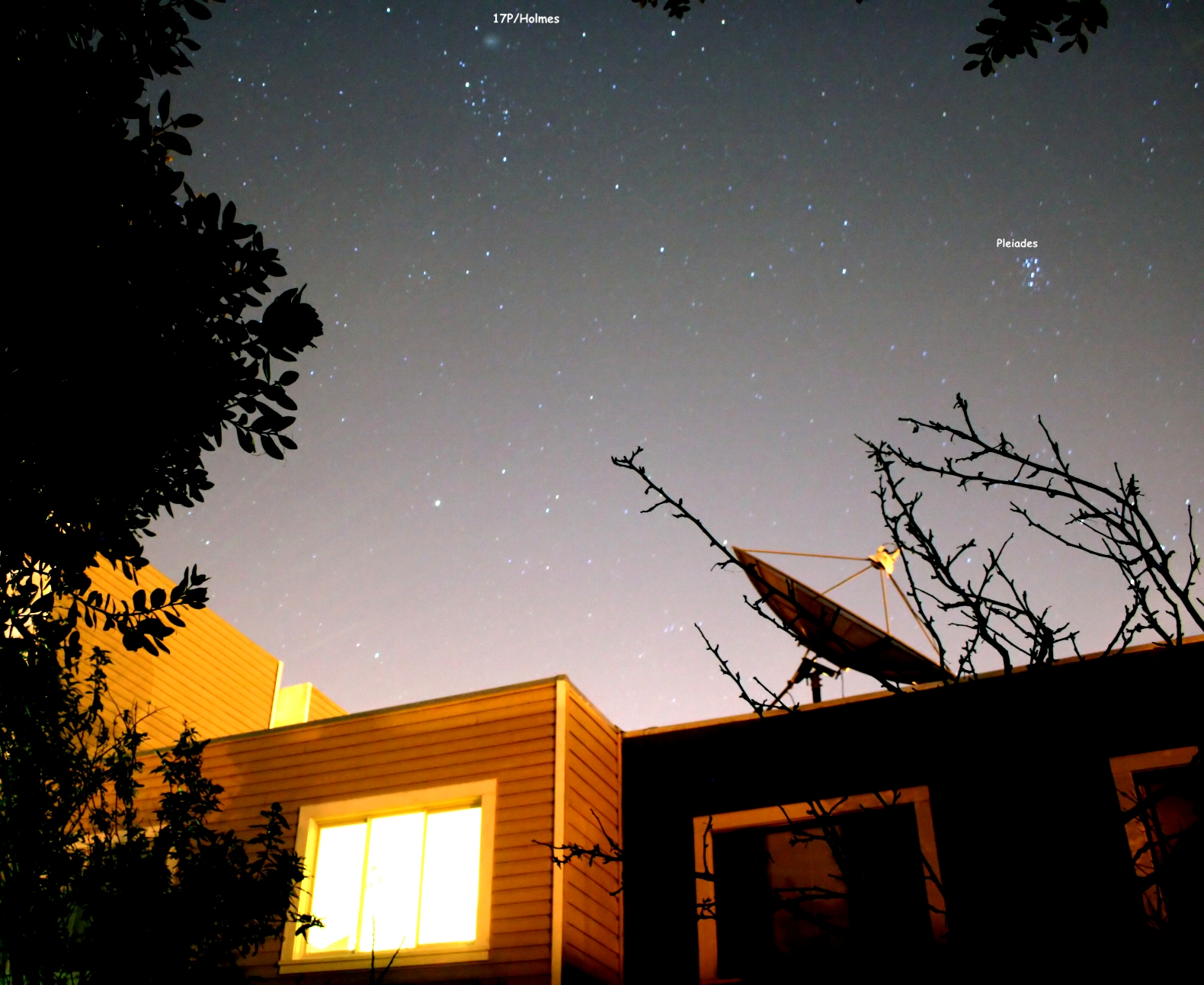 Comet 17P/Holmes and Pleiades from San Francisco.